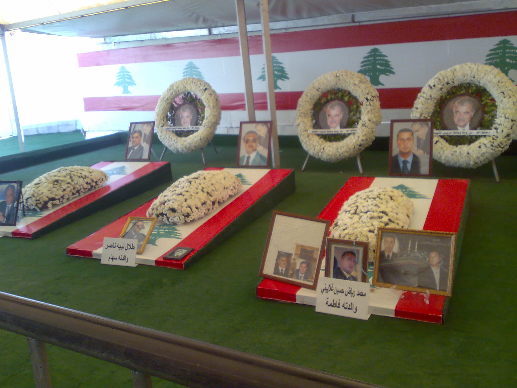 Hariri's bodyguards shrine